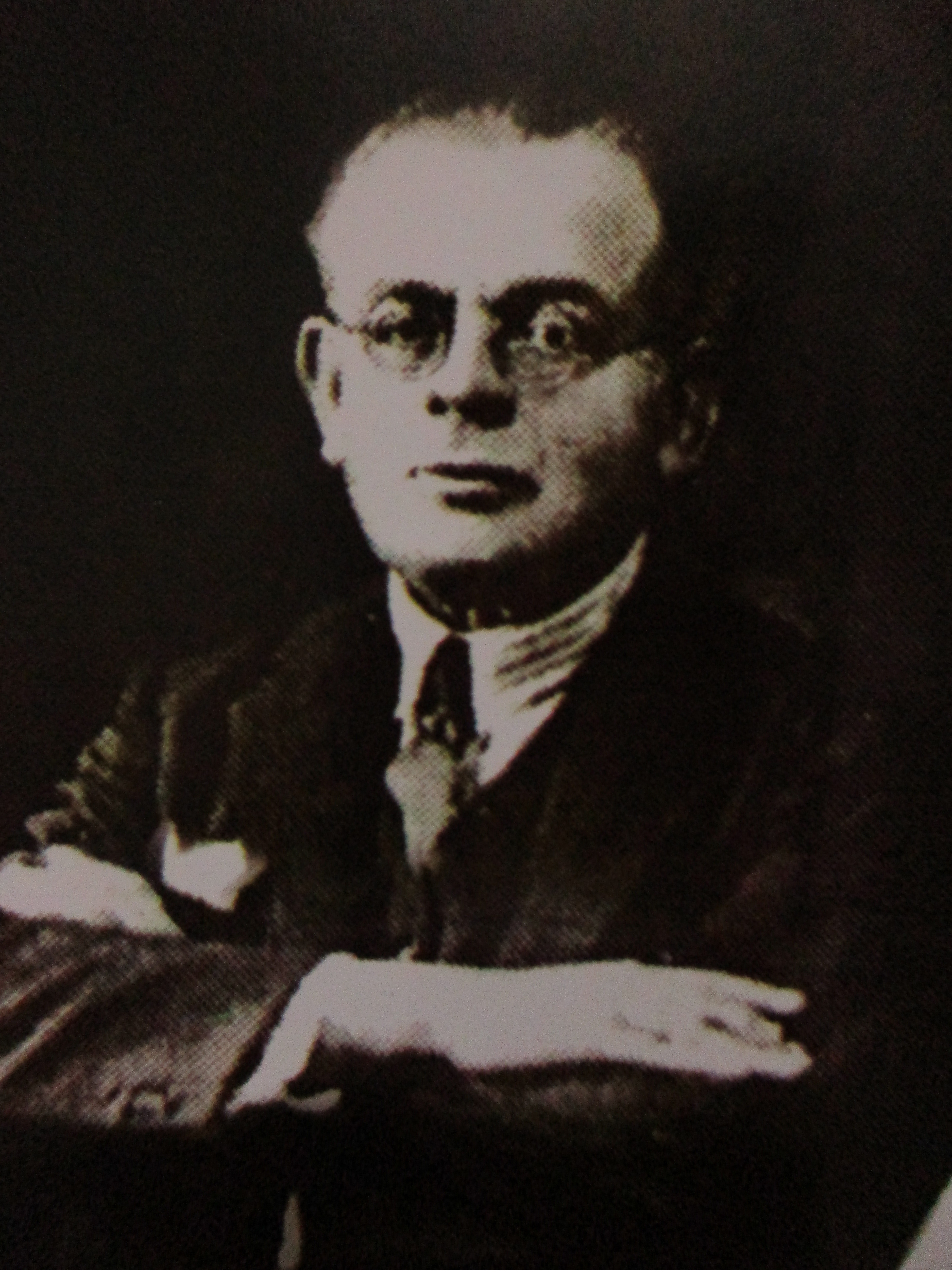 Genaro Herrera, intellectual and mayor of Iquitos